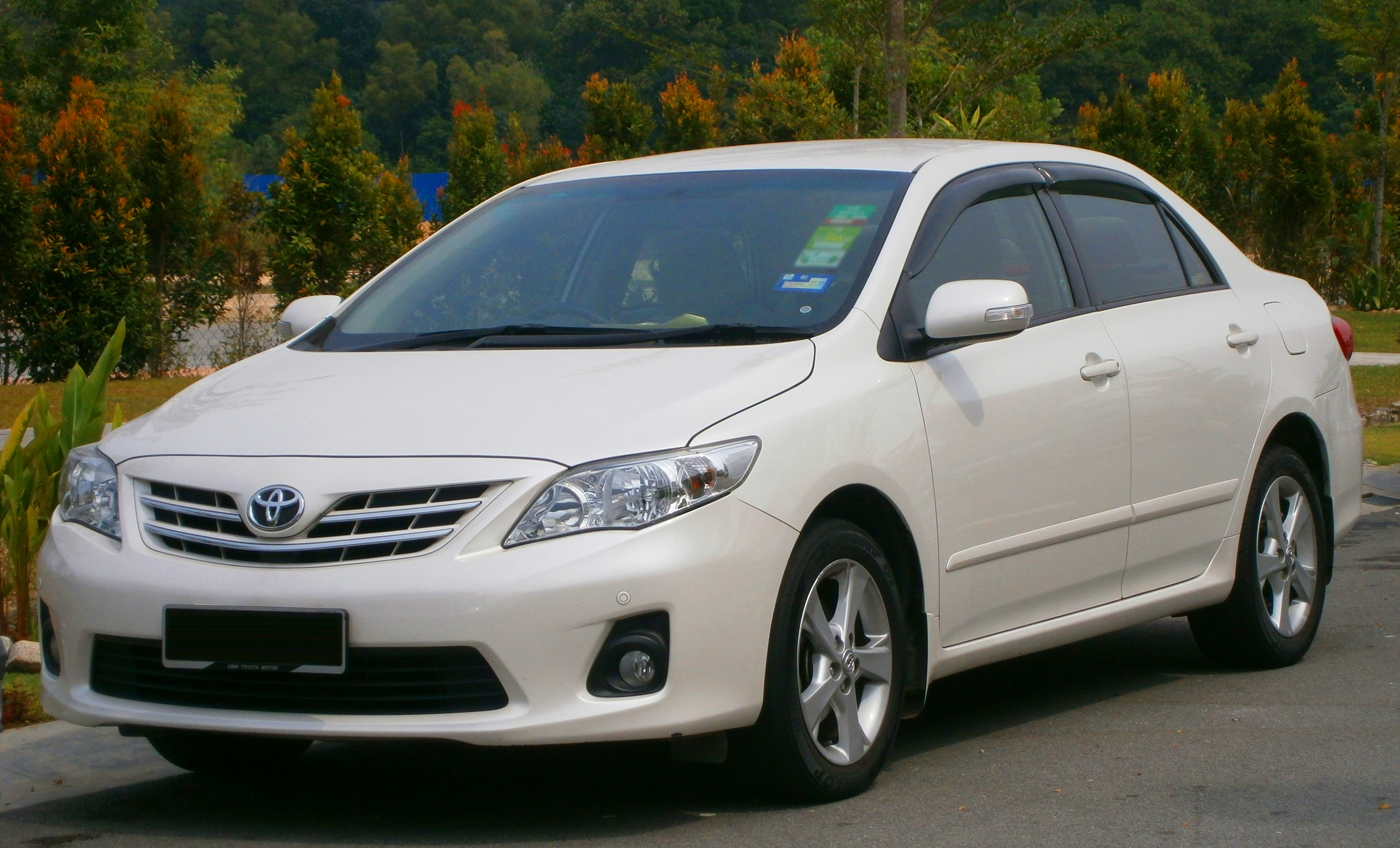 2011 Toyota Corolla Altis 1.8E in Puchong, Malaysia. Colour : White Pearl CS Designed in Japan , Assembled in Thailand